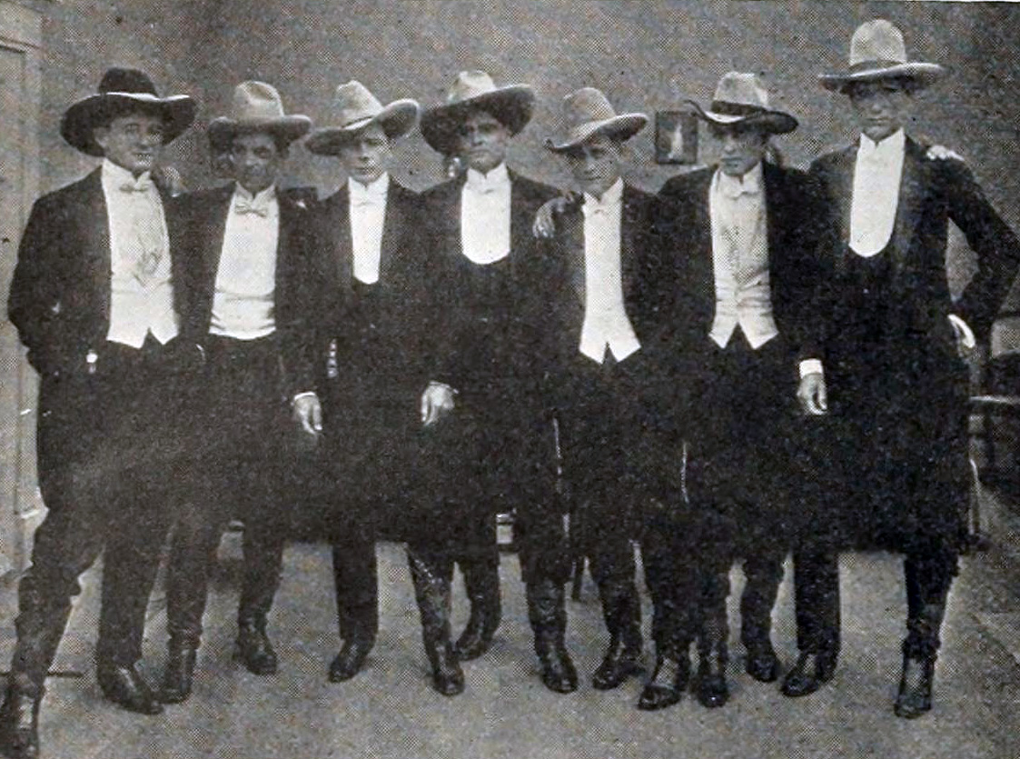 Illustration of an article in The Moving Picture World. "From left to right: Bud Osborne, rider and steer bulldogger ; Joe Rickson, champion Roman rider ; Tommy Grimes, champion bucking horse rider ; Pedro Leon, the man who can rope fifteen riders with his lariat ; Neal Hart, former Wyoming sheriff and range rider ; Harry Carey, and Bill Gillis, Texas cowpuncher and all-round rider of bucking horses and steers."